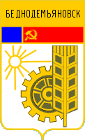 Coat of Arms of Bednodemyanovsk (Penza oblast)